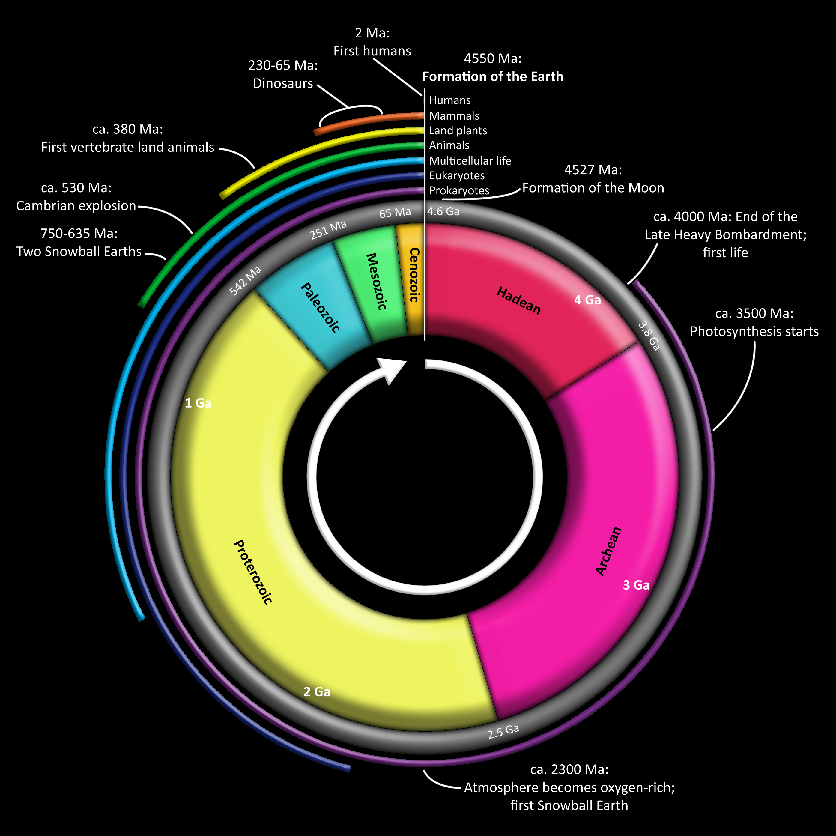 The geological clock: a projection of Earth's 4,5 Ga history on a clock ("MA" = a million years (Megayear) ago; "GA" = a billion years (Gigayear) ago)